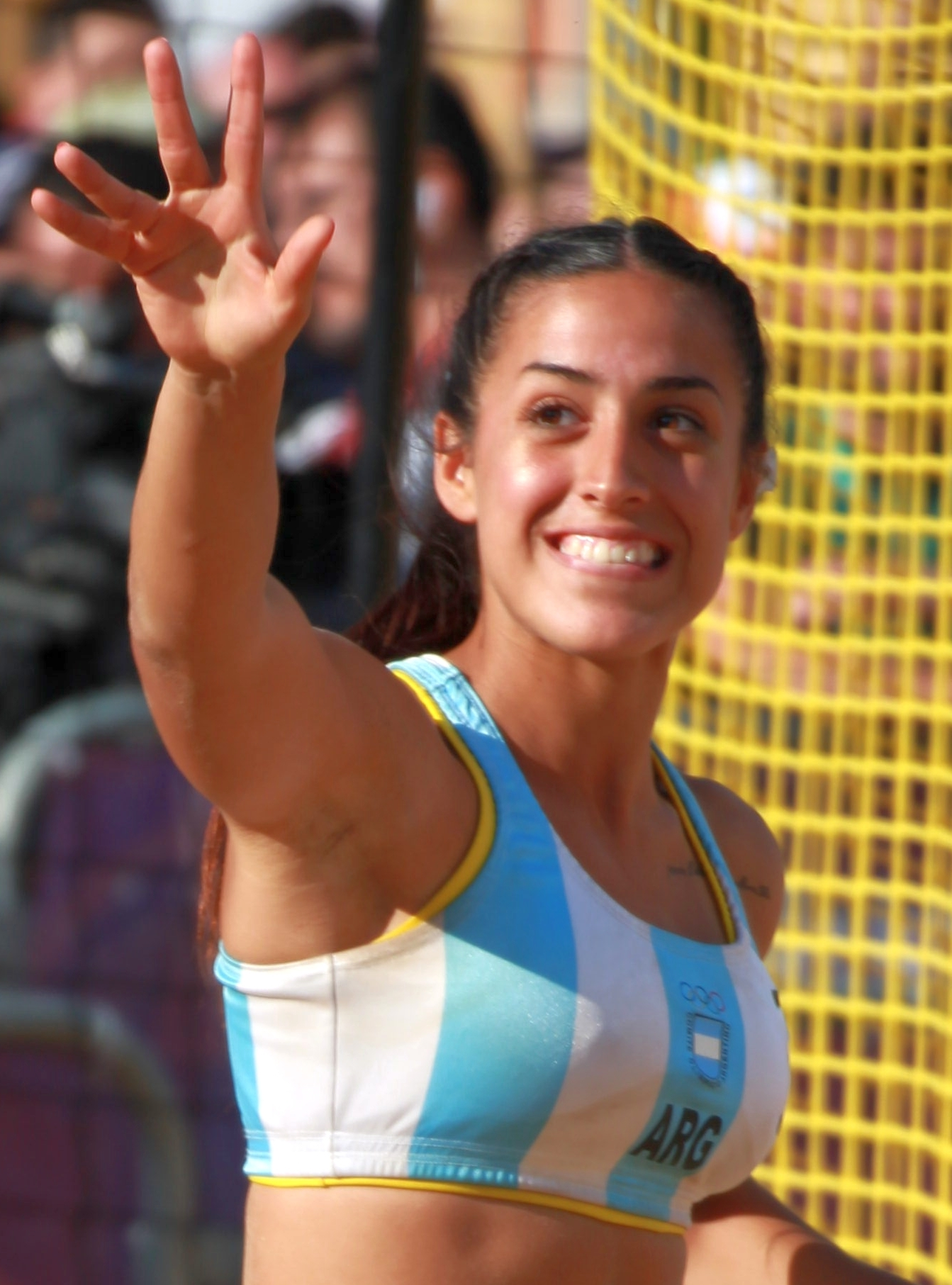 Beach handball at the 2018 Summer Youth Olympics in Buenos Aires at 13 October 2018 – Girls Gold Medal Match – Argentina-Croatia 2:0